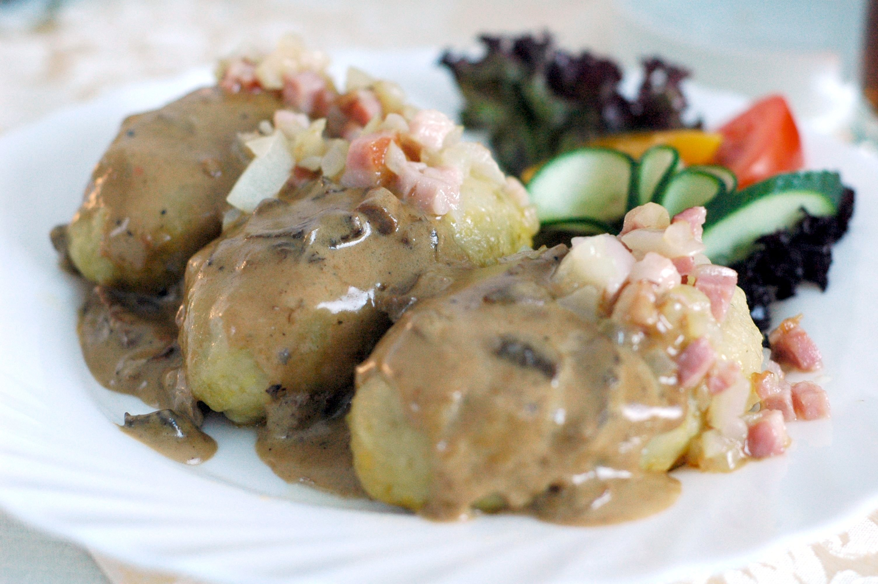 Cepelinai (zeppelins), the national dish of Lithuania. Served with cream sauce and bacon bits.